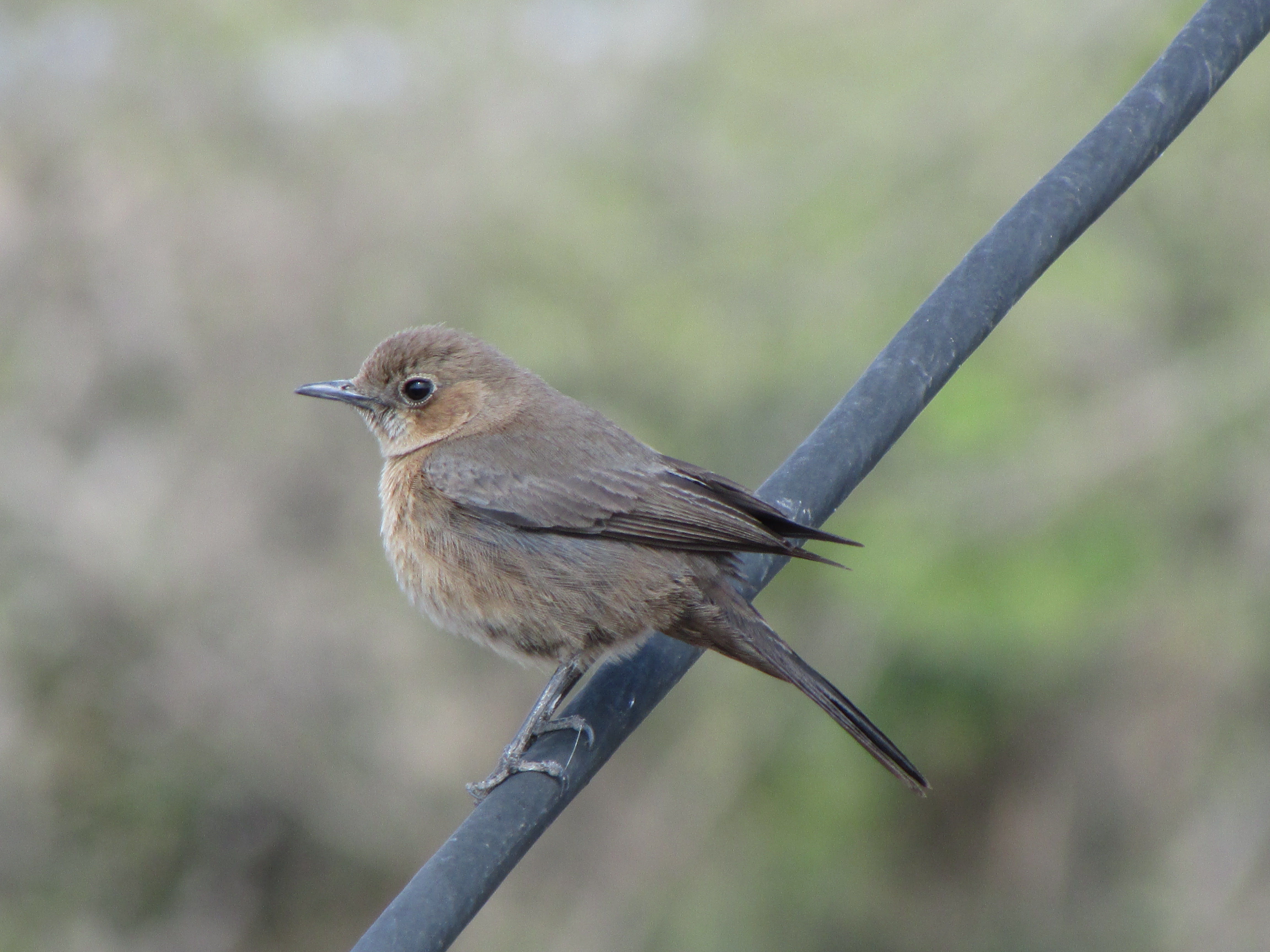 beautiful wild Indian flora and fauna